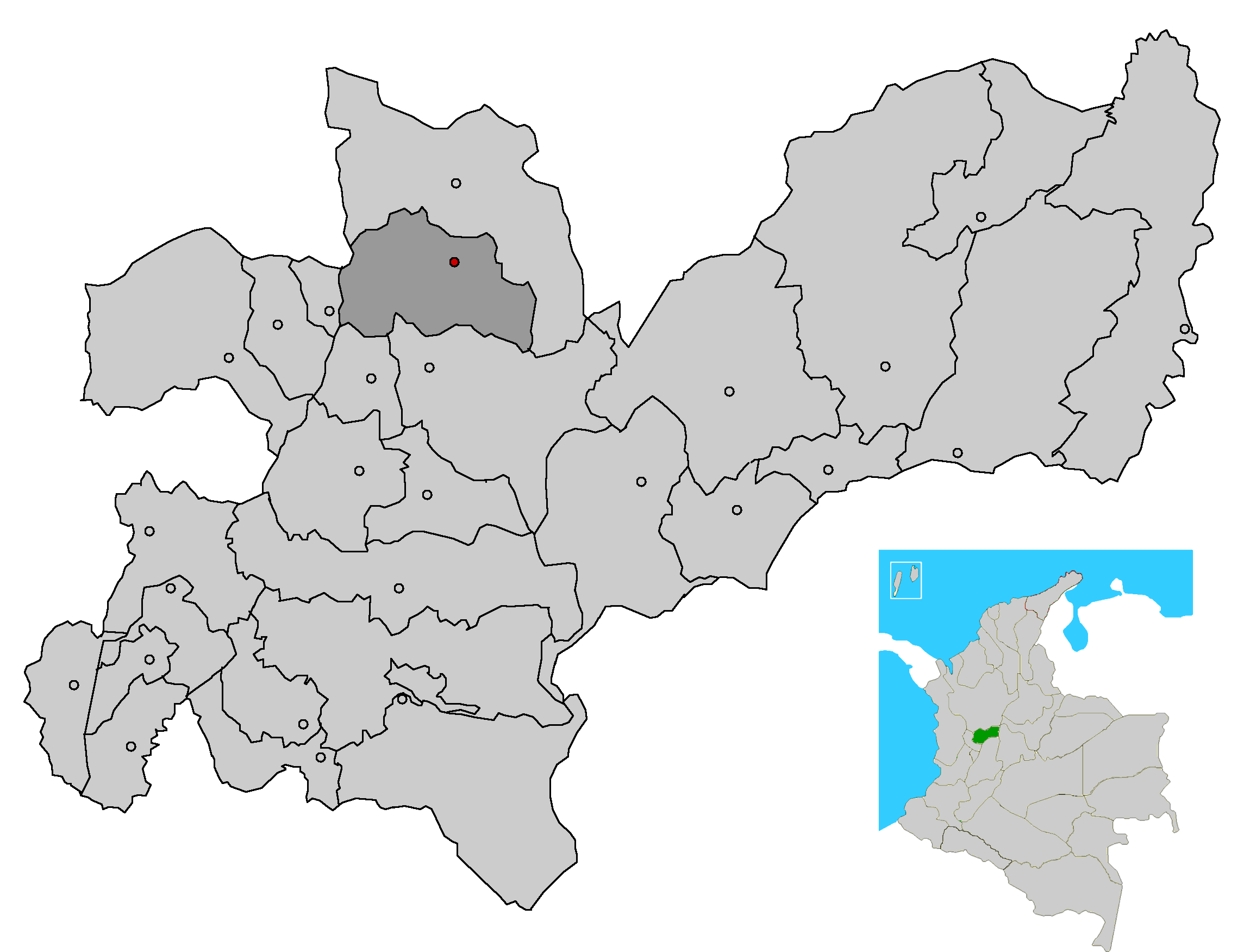 Image depicting map location of the town and municipality of Pacora in Caldas Department, Colombia